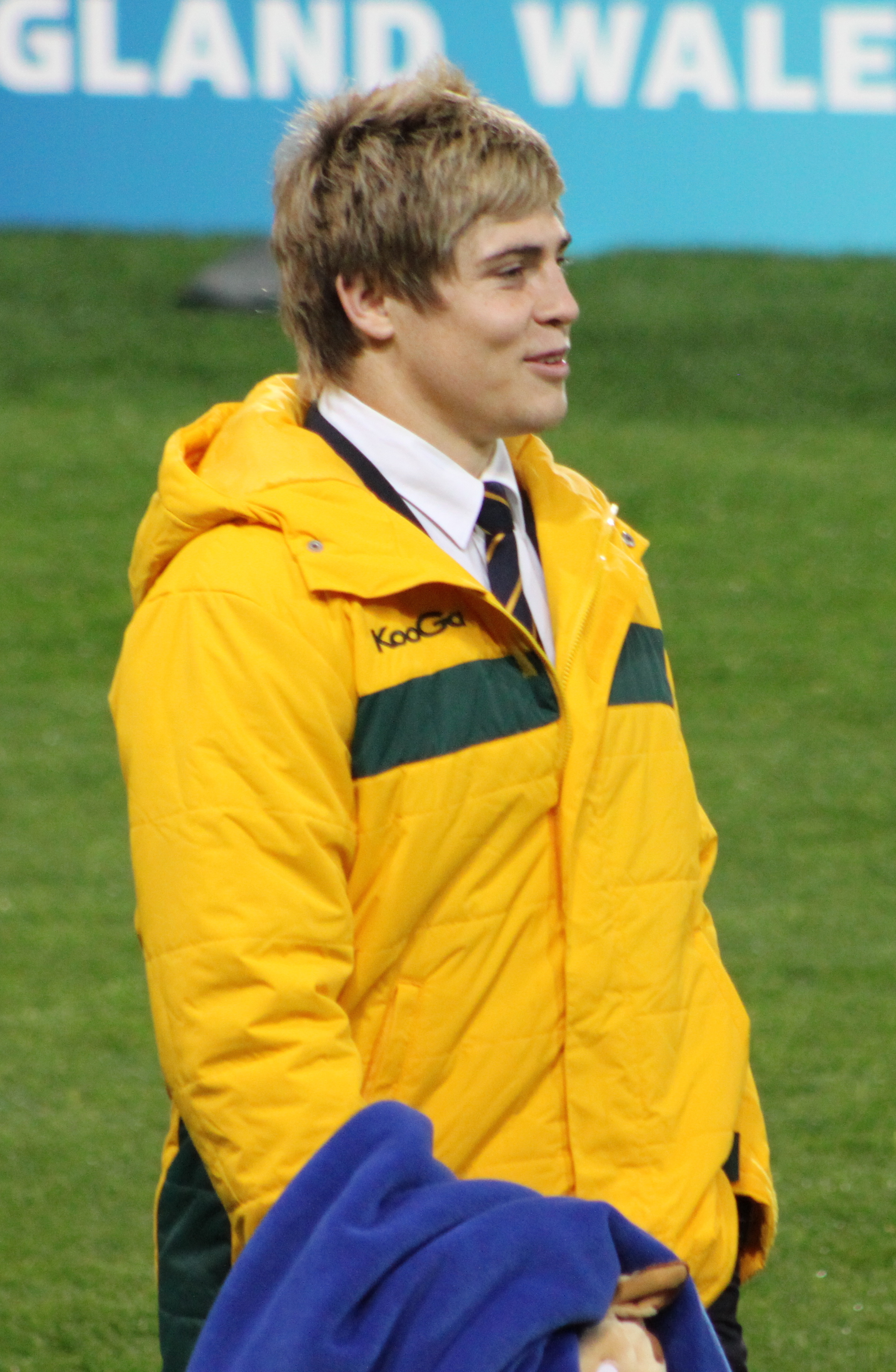 The Australian rugby union player James O'Connor before 2011 World Cup match against USA.